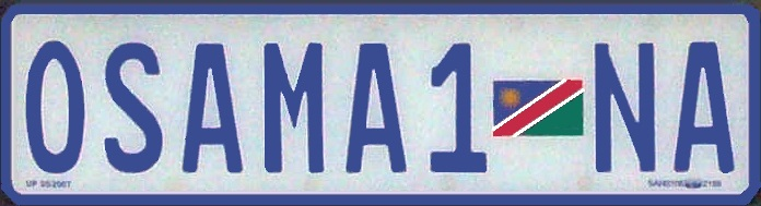 Namibian vanity plate